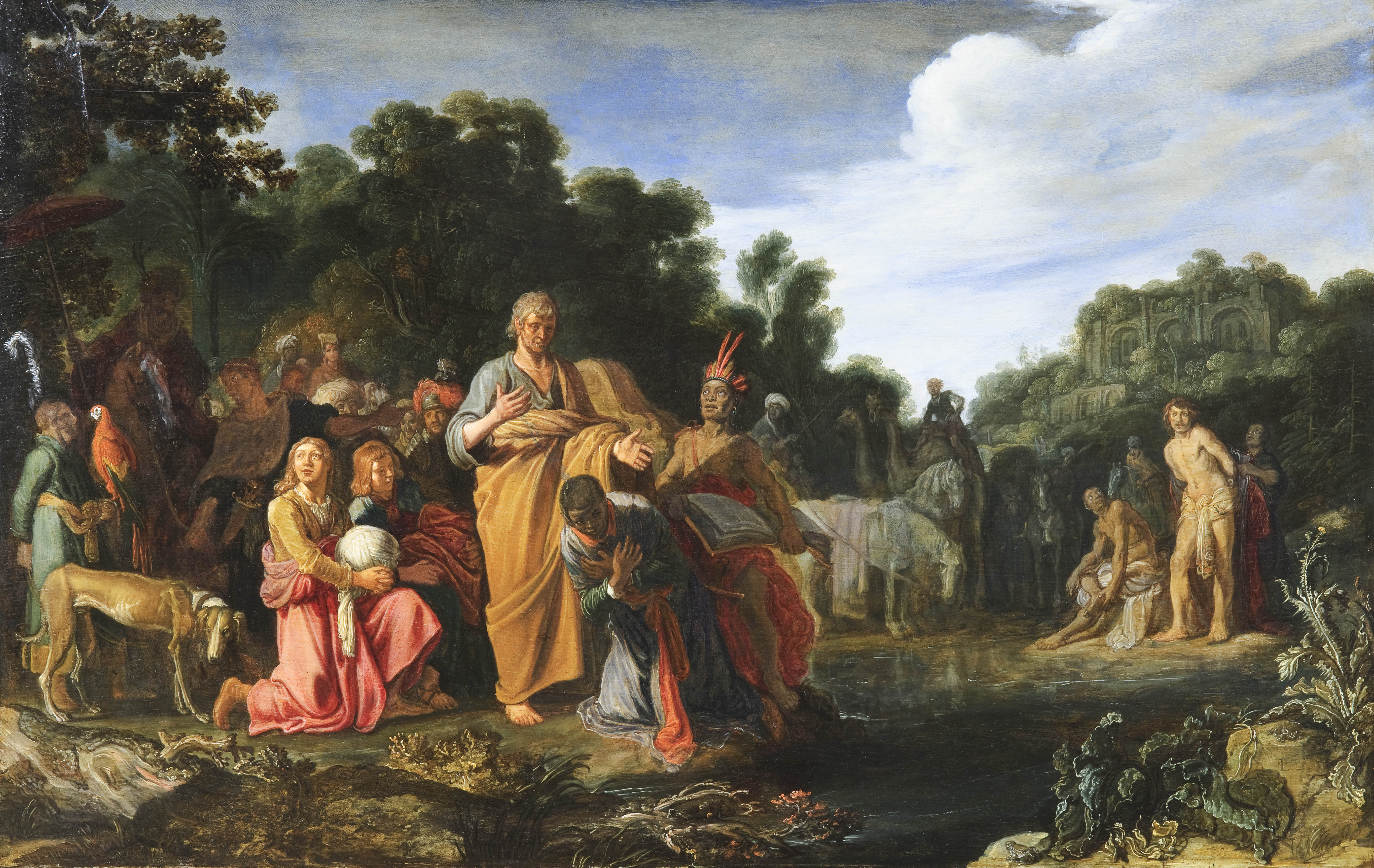 The Baptism of the Eunuch, Pieter Lastman, 1615 to 1620, oil on panel, 63.5 by 98.8 cm, Fondation Custodia, Paris